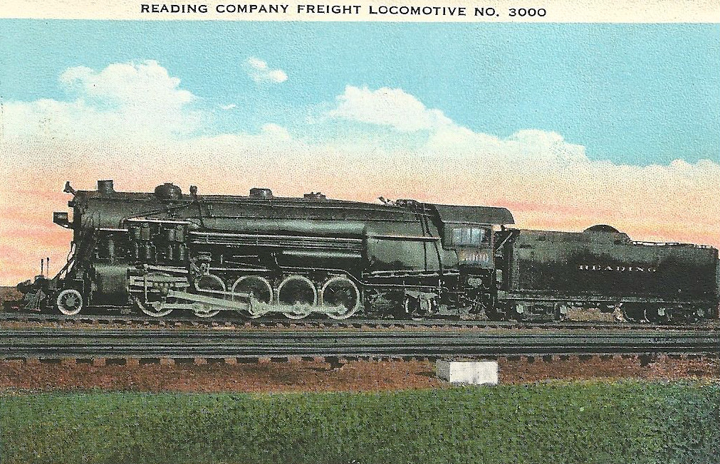 Postcard photo of a Reading 2-10-2 locomotive.